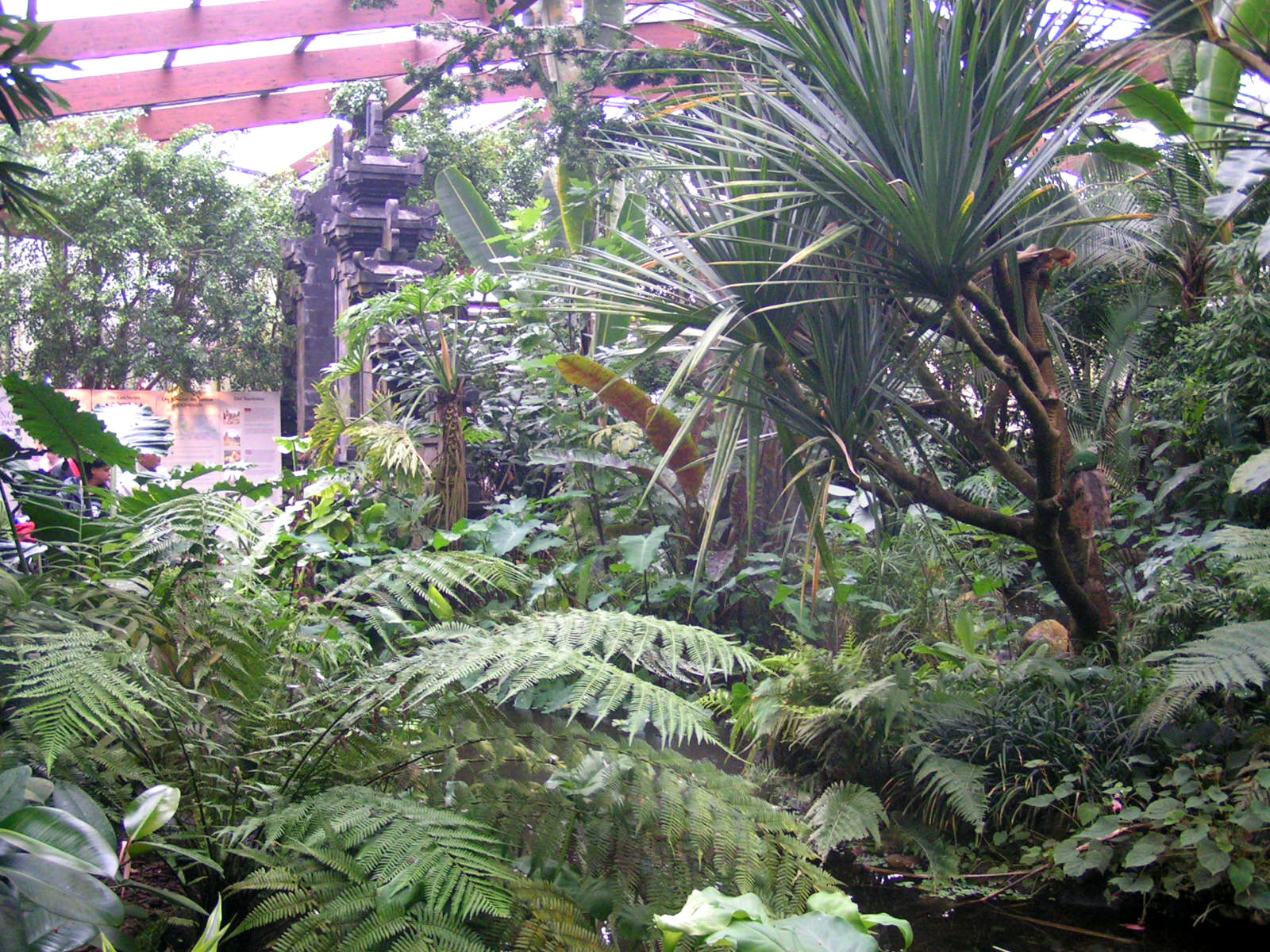 Tropenwaldhalle (rain forest hall) at Vogelpark Walsrode, Walsrode, Germany